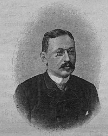 Alajos Matuska